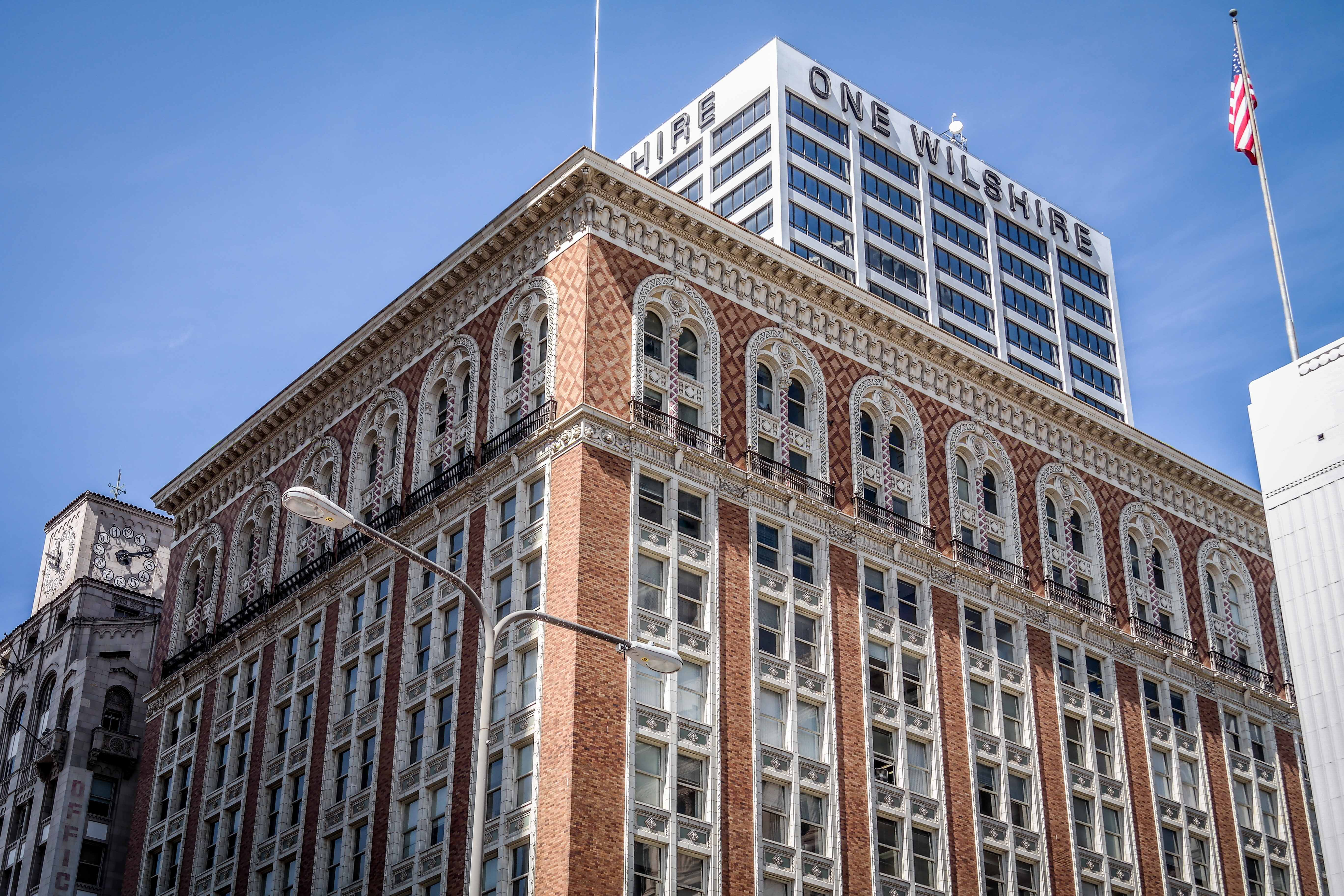 From left: James Oviatt Building (1927), NRHP#83004529; Heron Building (1921); One Wilshire (1966), most important telecommunications hub in the US; Pacific Center (1908).